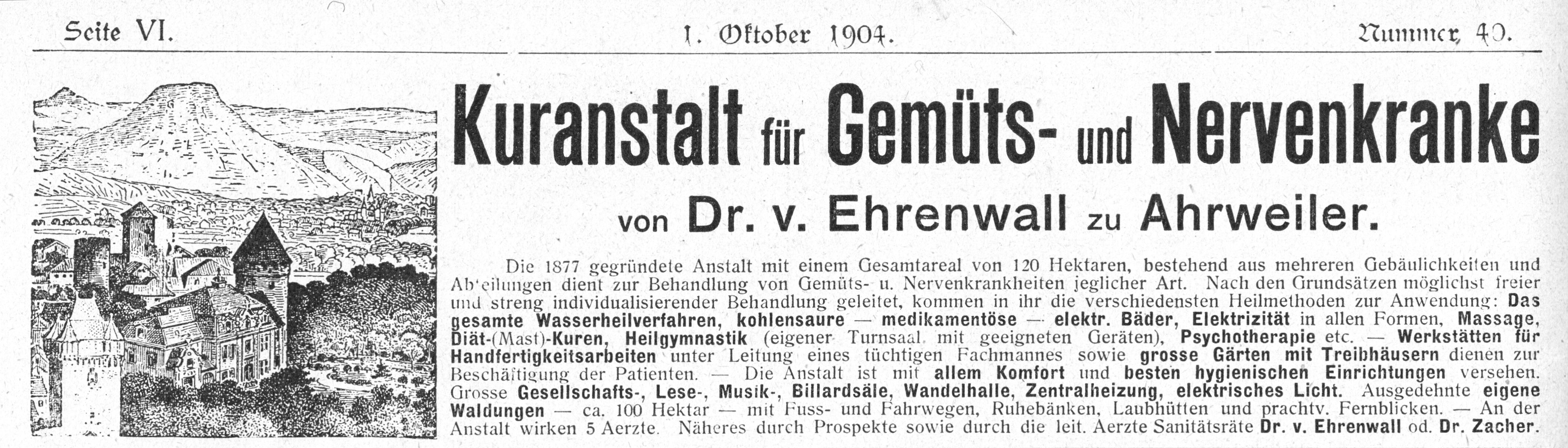 Advertisement for a hospital